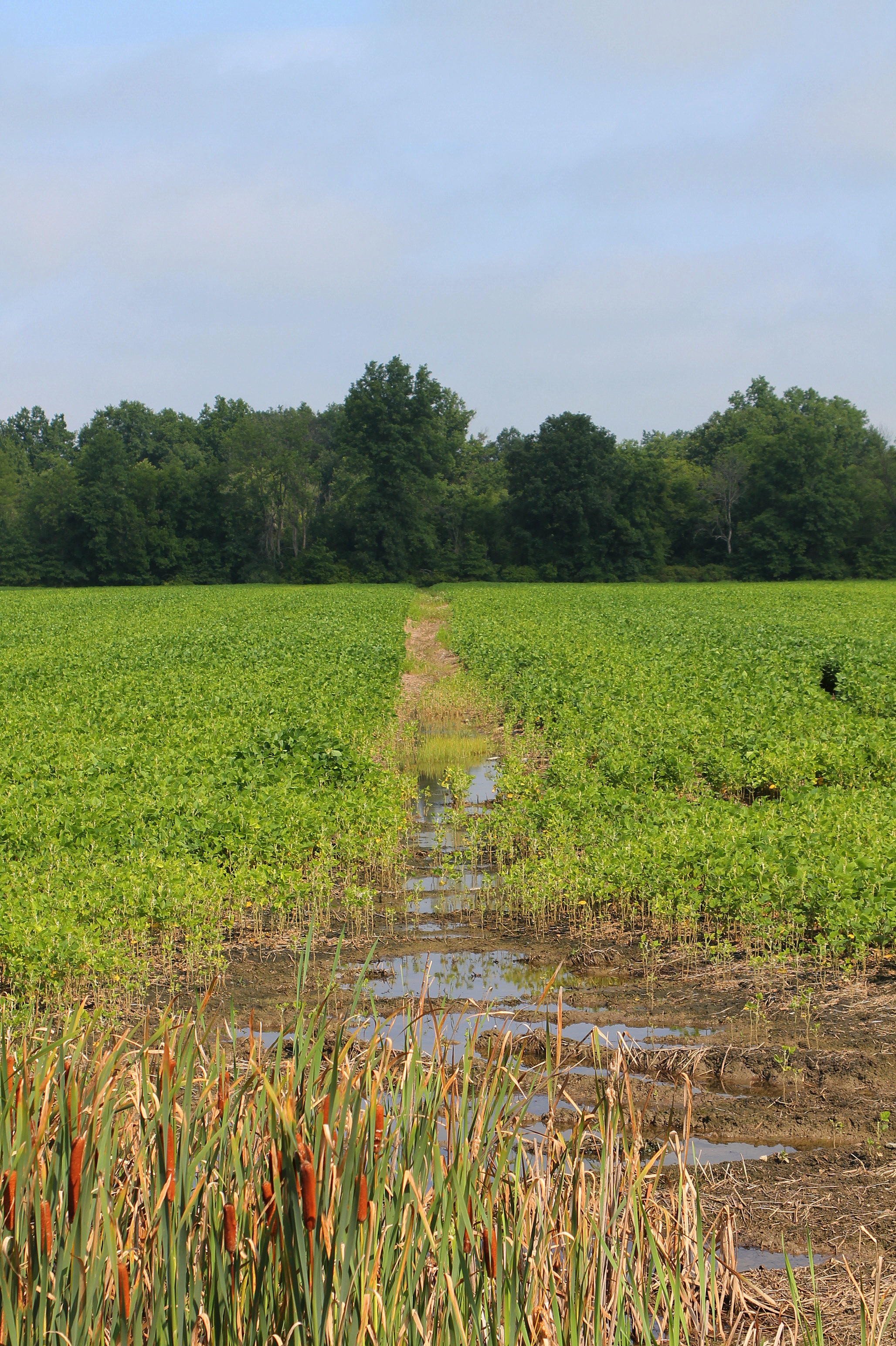 Irrigation ditch in Montour County, Pennsylvania, off Strawberry Ridge Road